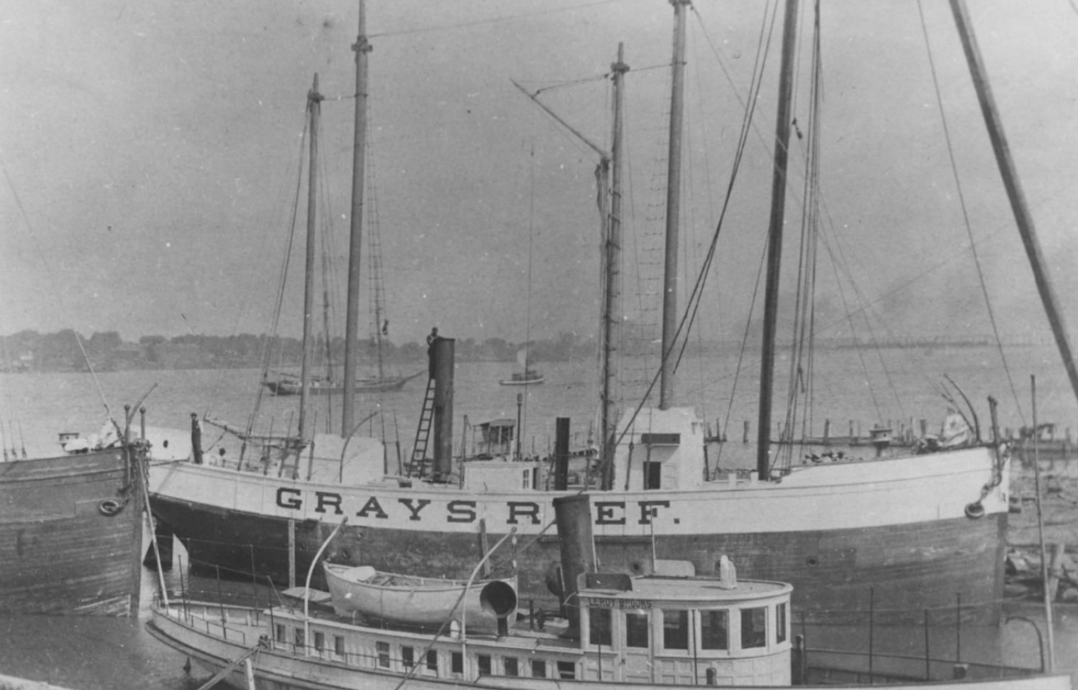 Light Vessel No.57 prior to being retired in 1923